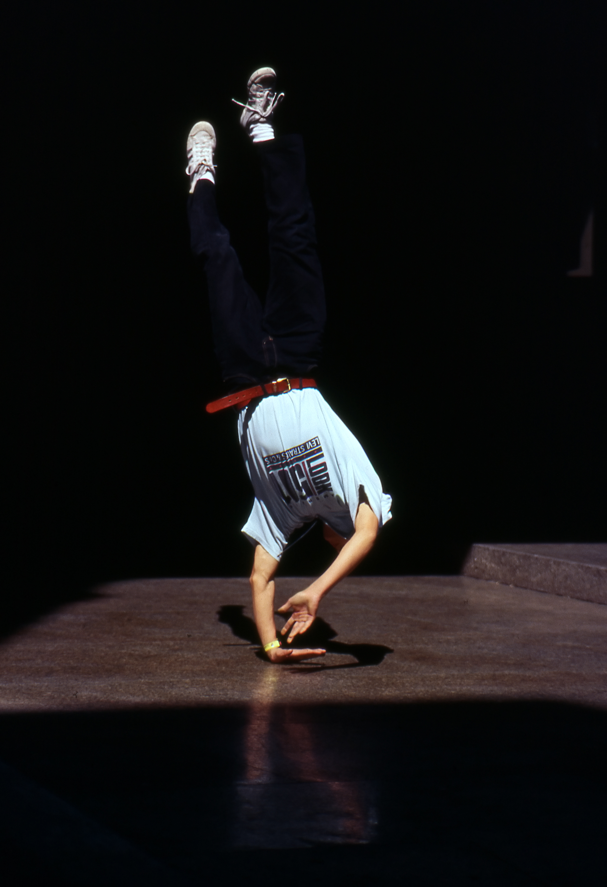 BreakDancer - Turin, Italy - About 1994